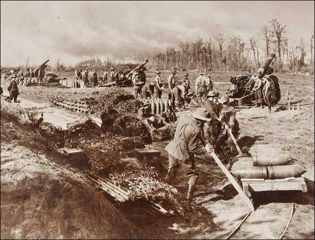 Photograph of shells being brought up by light rail to the 8 inch howitzers of Australian 54th Siege Artillery Battery, Western Front, 1917.